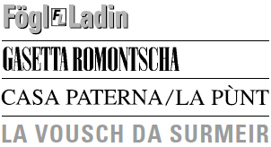 Sub-masthead of the Swiss nespaper La Quotidiana